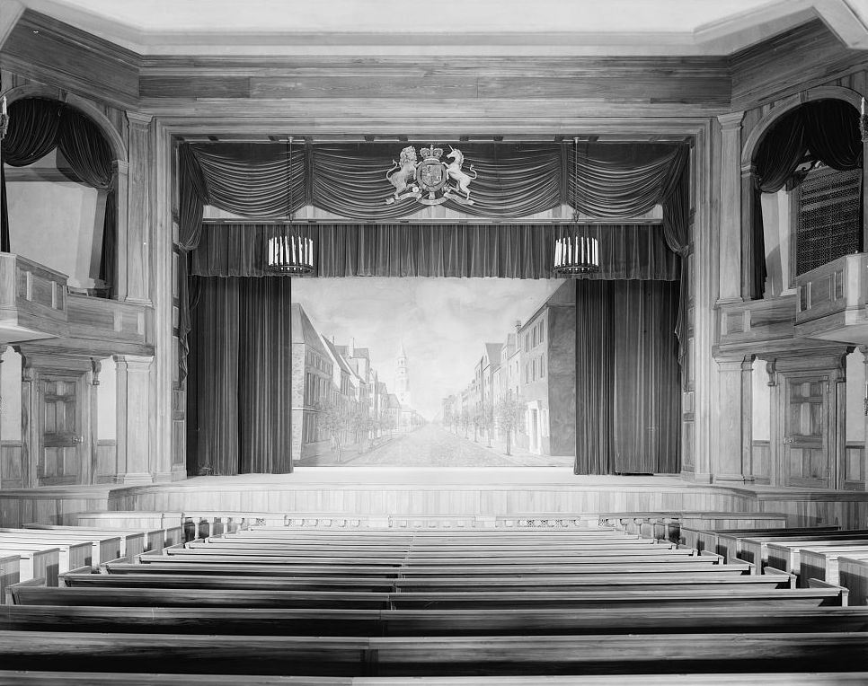 The interior of the Dock Street Theatre in Charleston, South Carolina, photographed in the late 1930s.